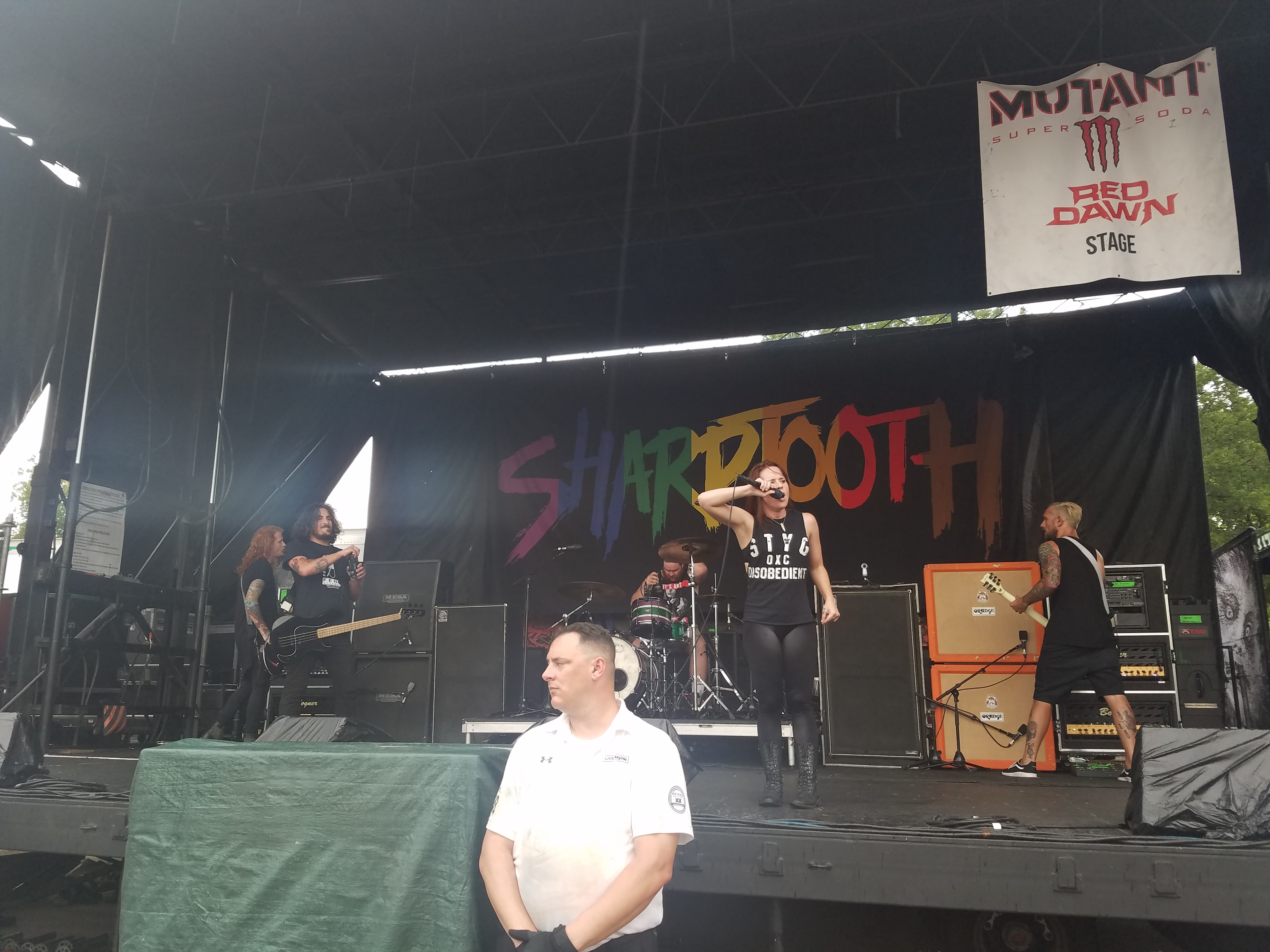 Sharptooth performing in 2018